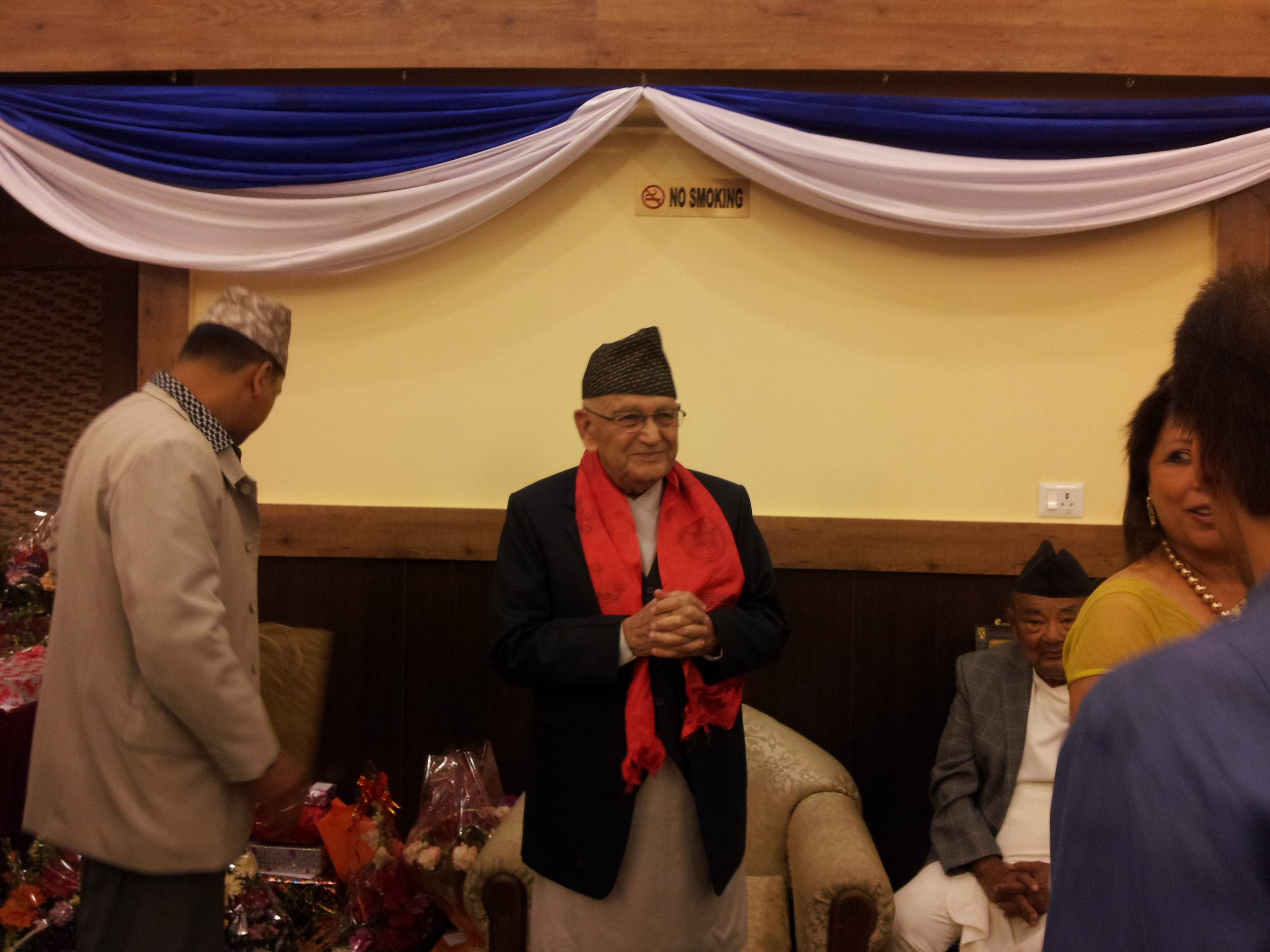 nepal's former prime minister SB thapa on his 86th birthday.